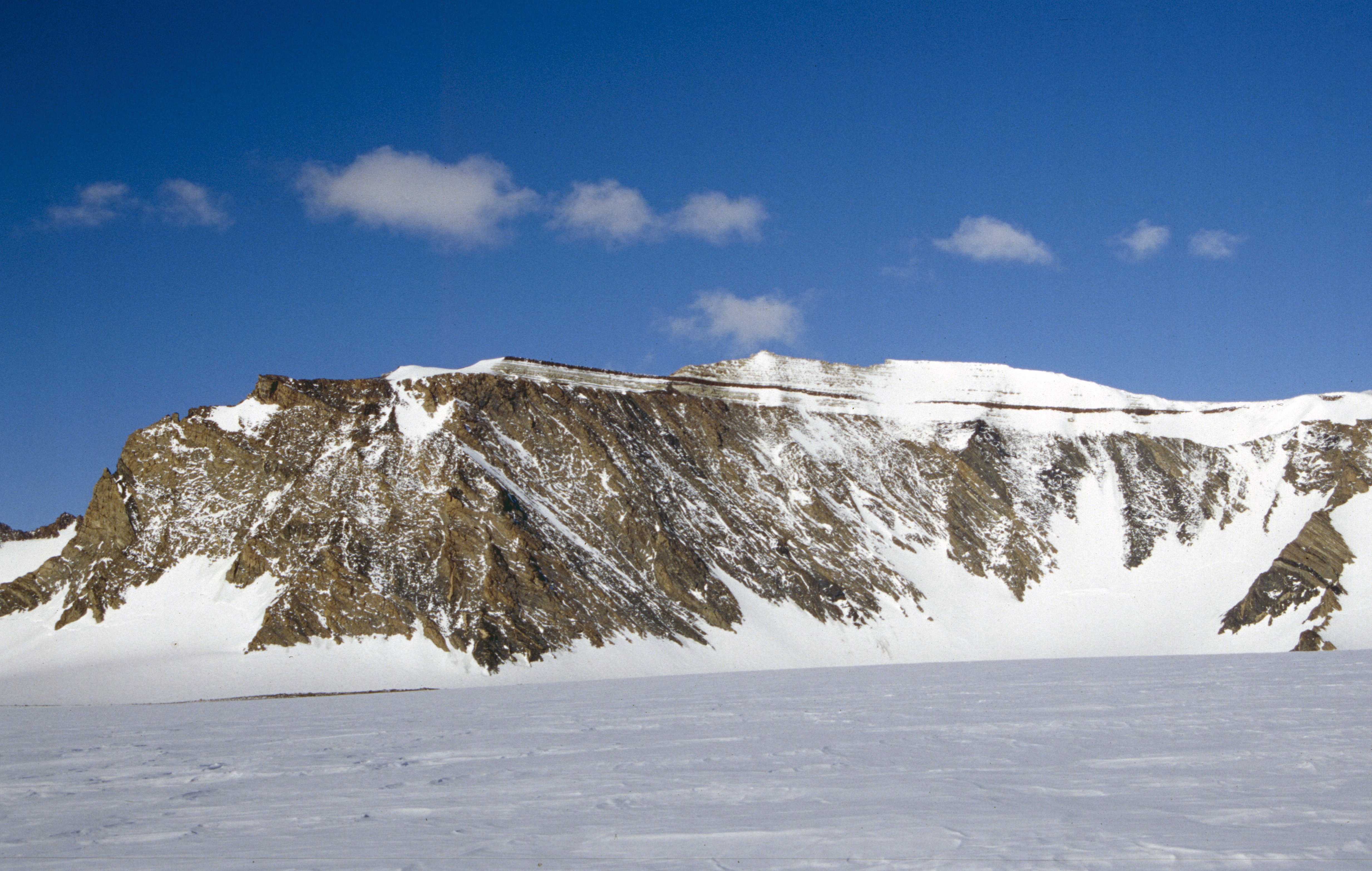 Schivestolen in the Heimefrontfjella, Queen Maud Land. The top is made up by subhorizontal Permian sandstones, the black band is a Jurassic sill. View to the east.